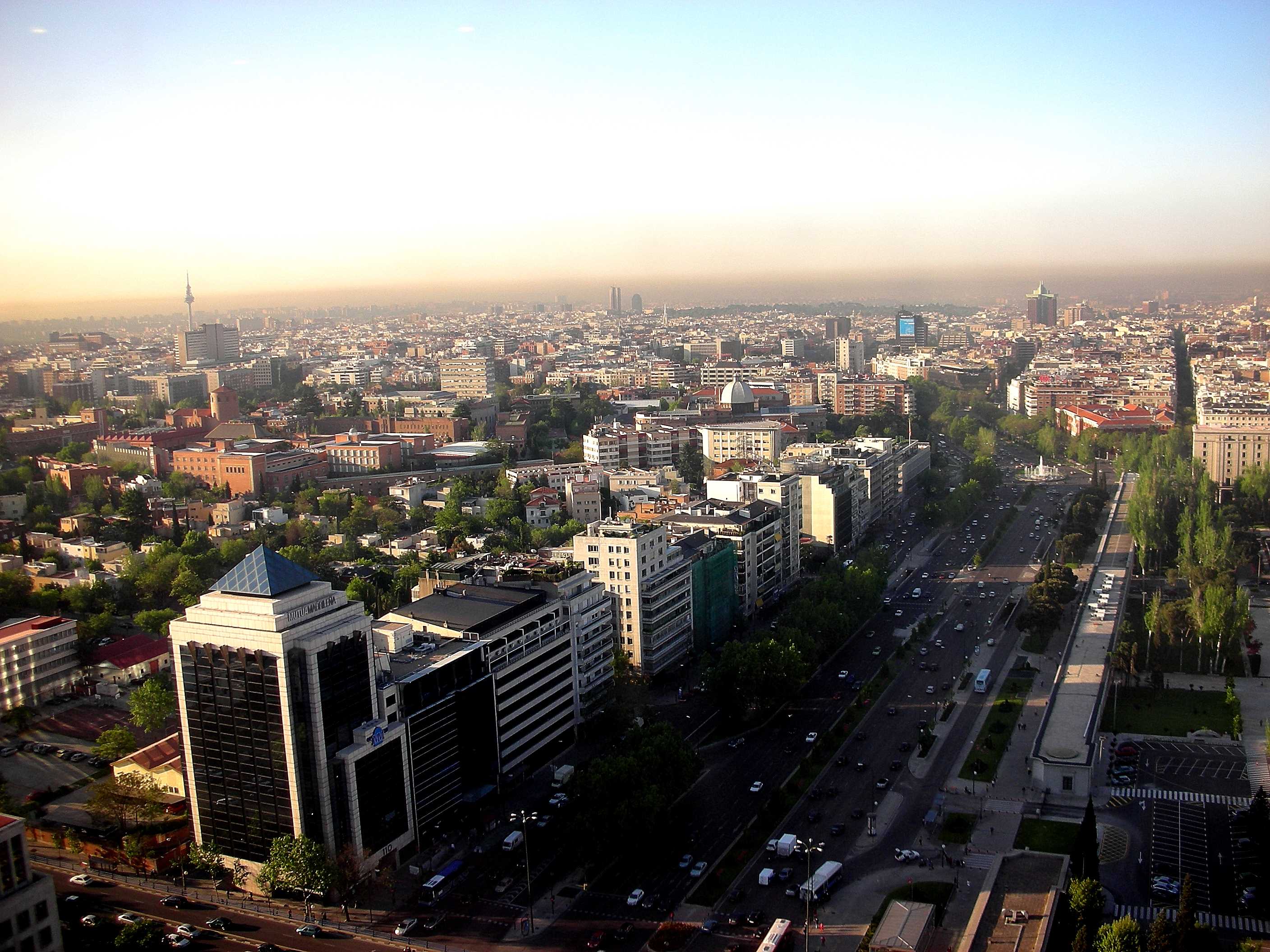 Partial view of Paseo de la Castellana (avenue) and Salamanca district in Madrid (Spain) from Castellana 81 building (in AZCA business park).